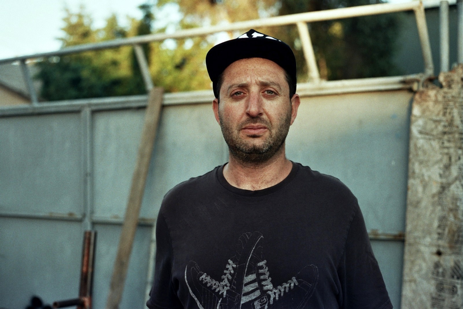 Image of Scott Weintrob on set for scenes for multiple projects.